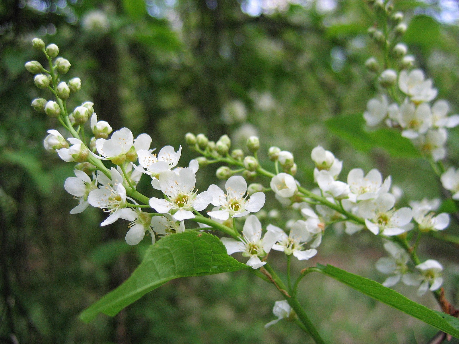 Prunus padus inflorescence with white flowers. Tree growing in Sołtysowicki Forest in Wrocław, Poland.